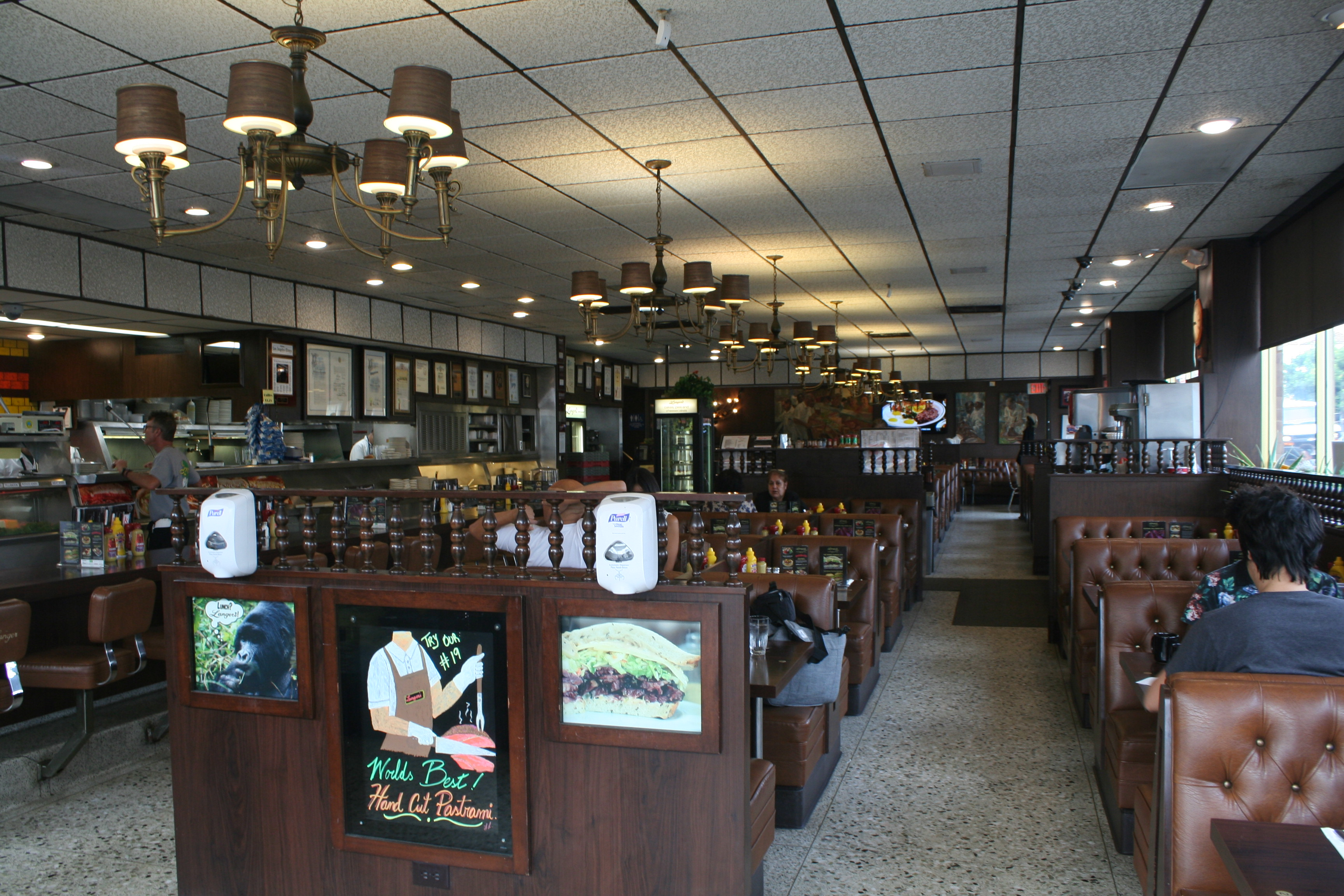 Interior of Langer's Deli in Westlake, Los Angeles.